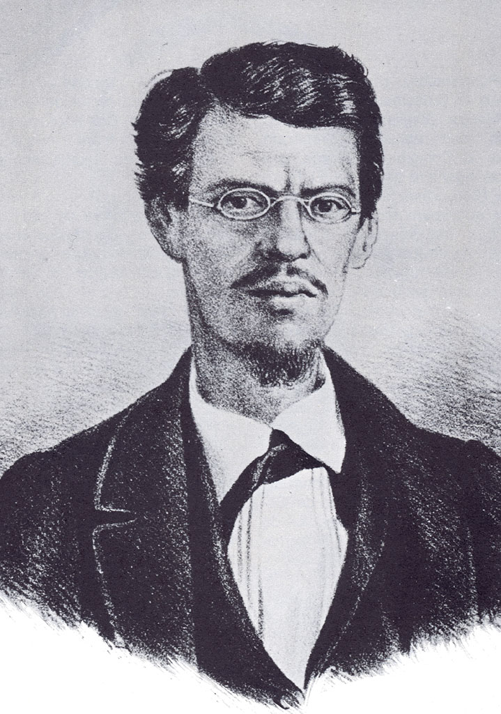 Florencio Maria del Castillo (1828-1863) writer, journalist and mexican political.